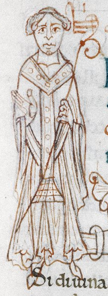 Depiction of Lanfranc, Archbishop of Canterbury from folio 1r of Bodleian Library MS Bodley 569.